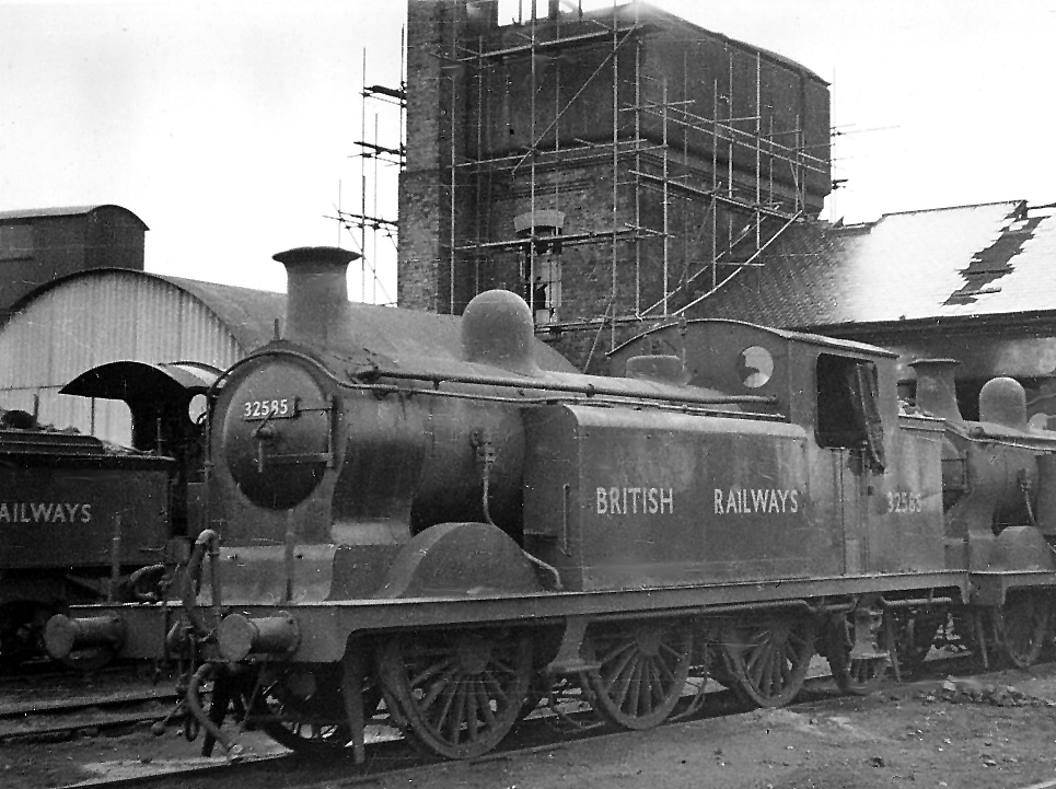 Three Bridges Locomotive Depot with E5 0-6-2T. Ex-LB&SCR R. Billinton class E5 No. 32585 was built as No. 585 'Crowborough' in 11/1903 and withdrawn in 5/54.